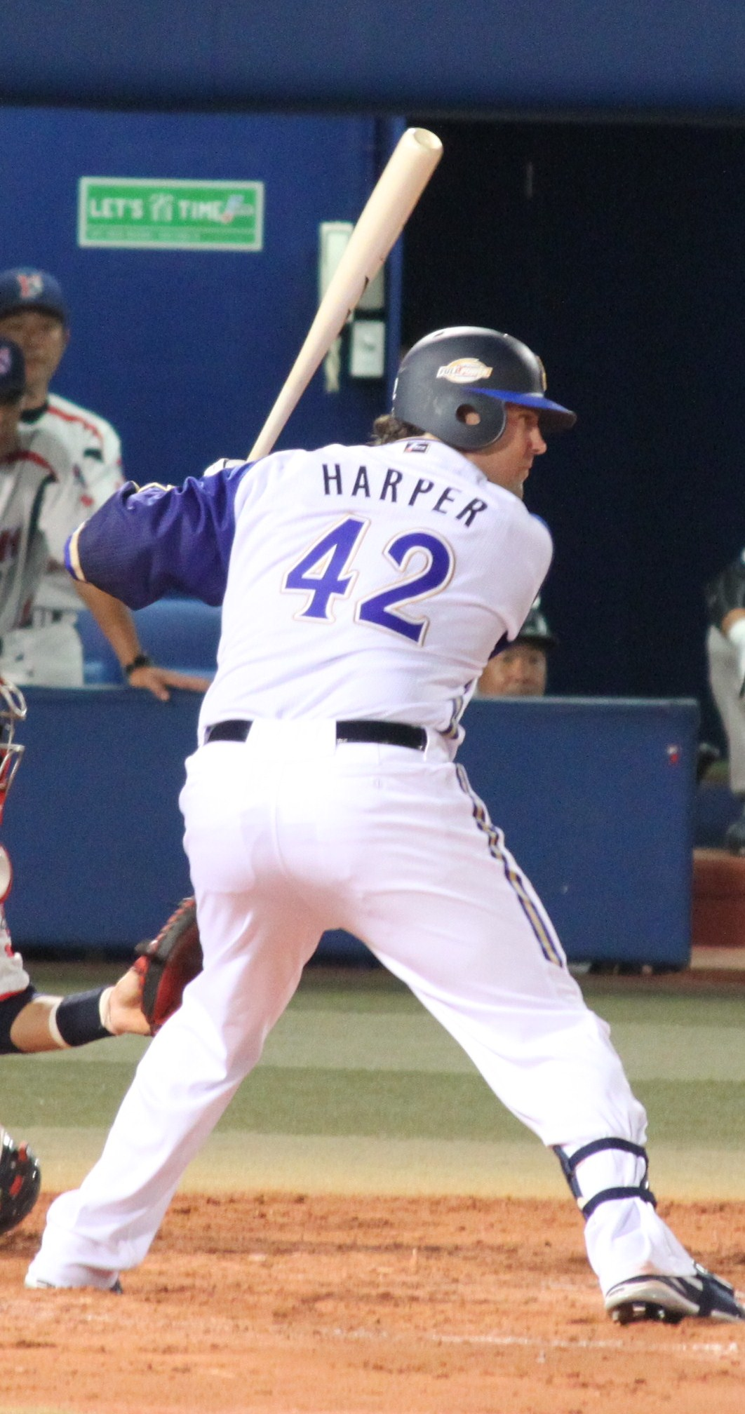 Brett Harper, infielder of the Yokohama BayStars, at Yokohama Stadium.